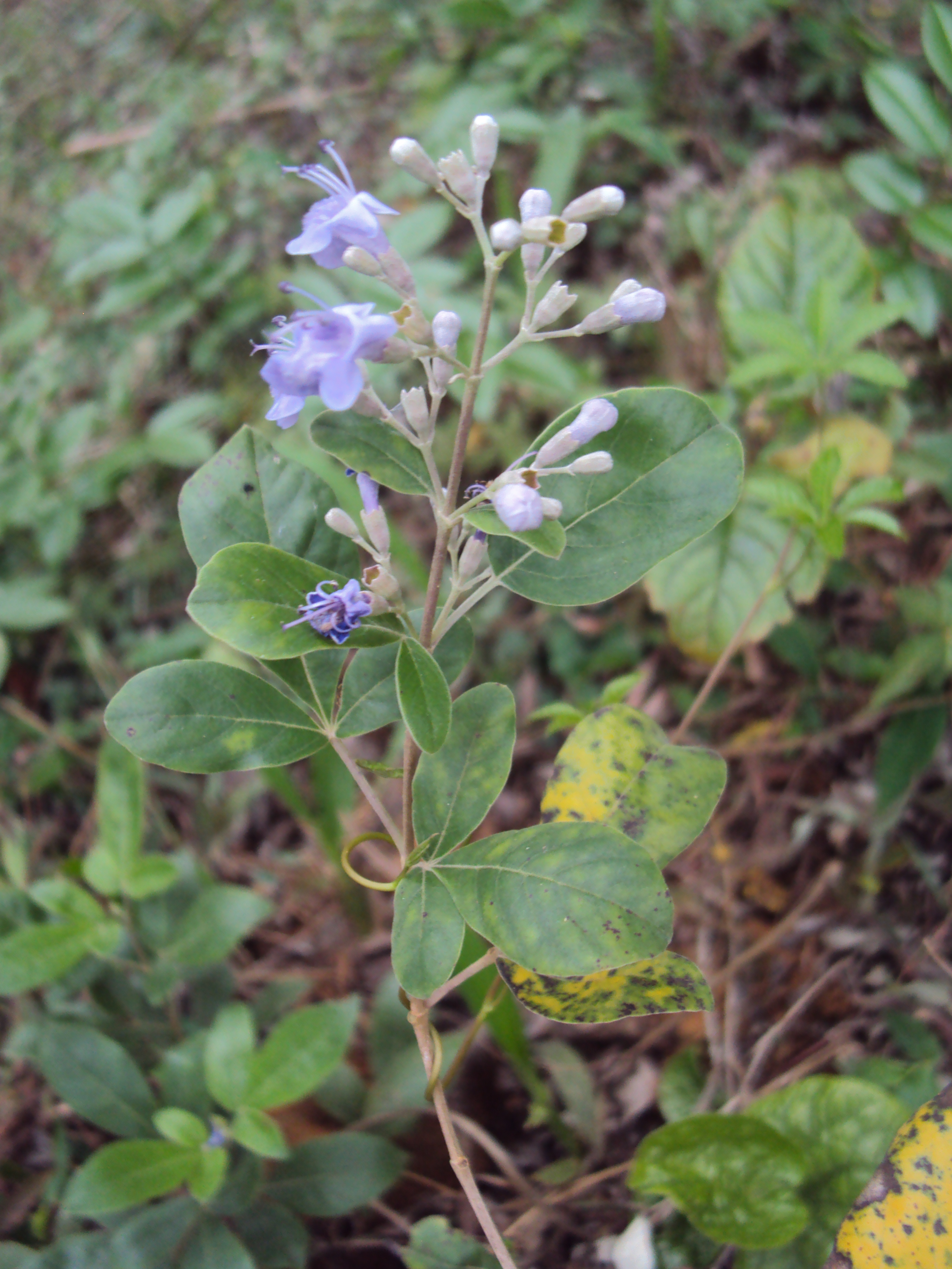 Vitex trifolia